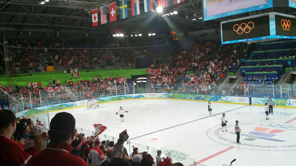 Crowd at UBC Thunderbird Arena celebrates after shorthanded goal. Hefford scores during a Swiss powerplay.